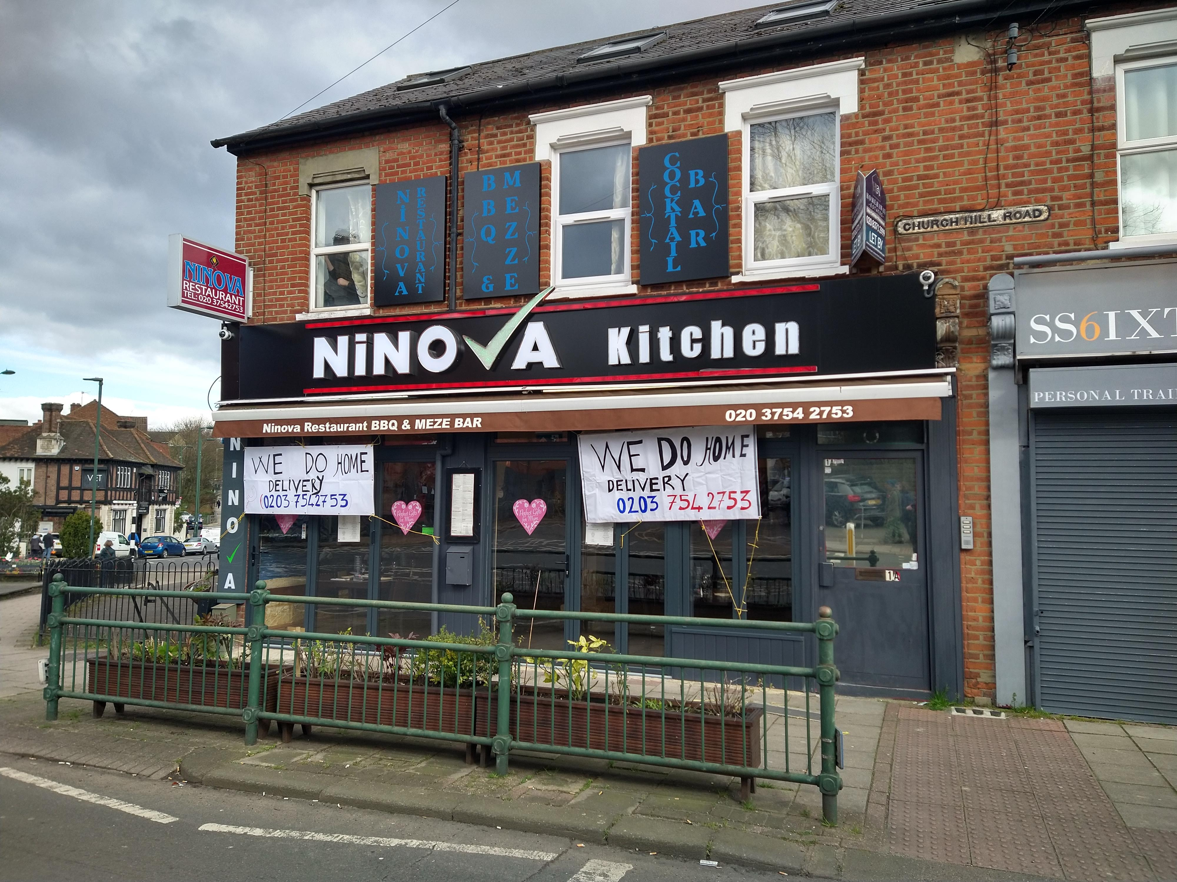 Restaurant in London offering home deliveries during the Coronavirus pandemic March 2020